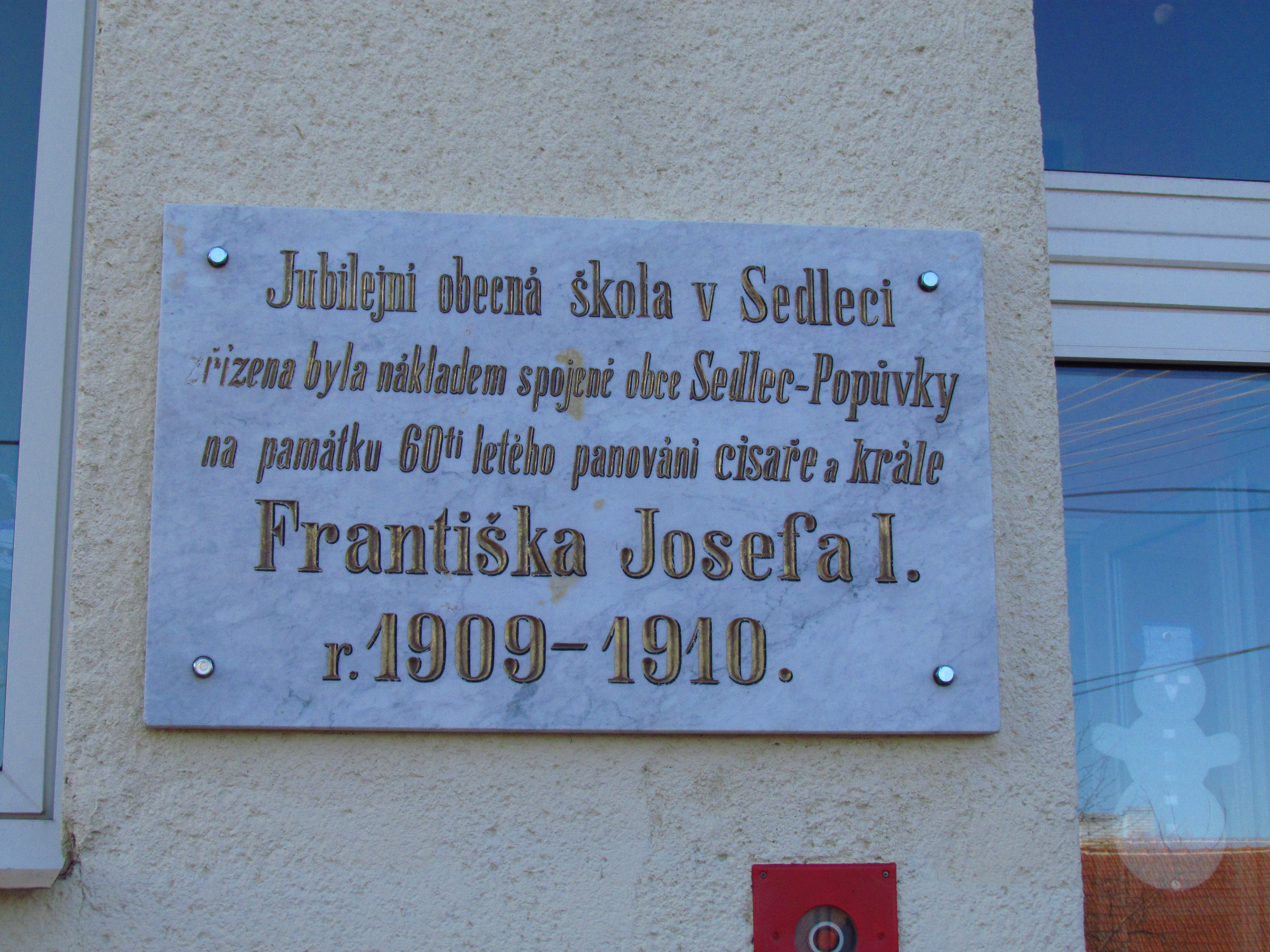 Plaque at school in Sedlec, Třebíč District.